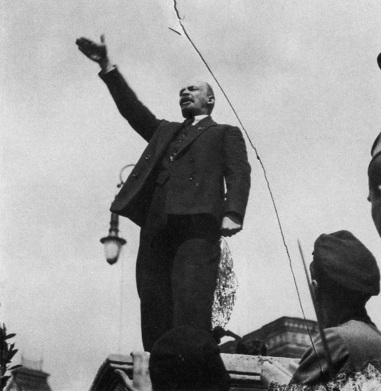 Lenin (1870-1924) making a speech in the Red Square at the unveiling of a temporary monument to Stepaz Razin